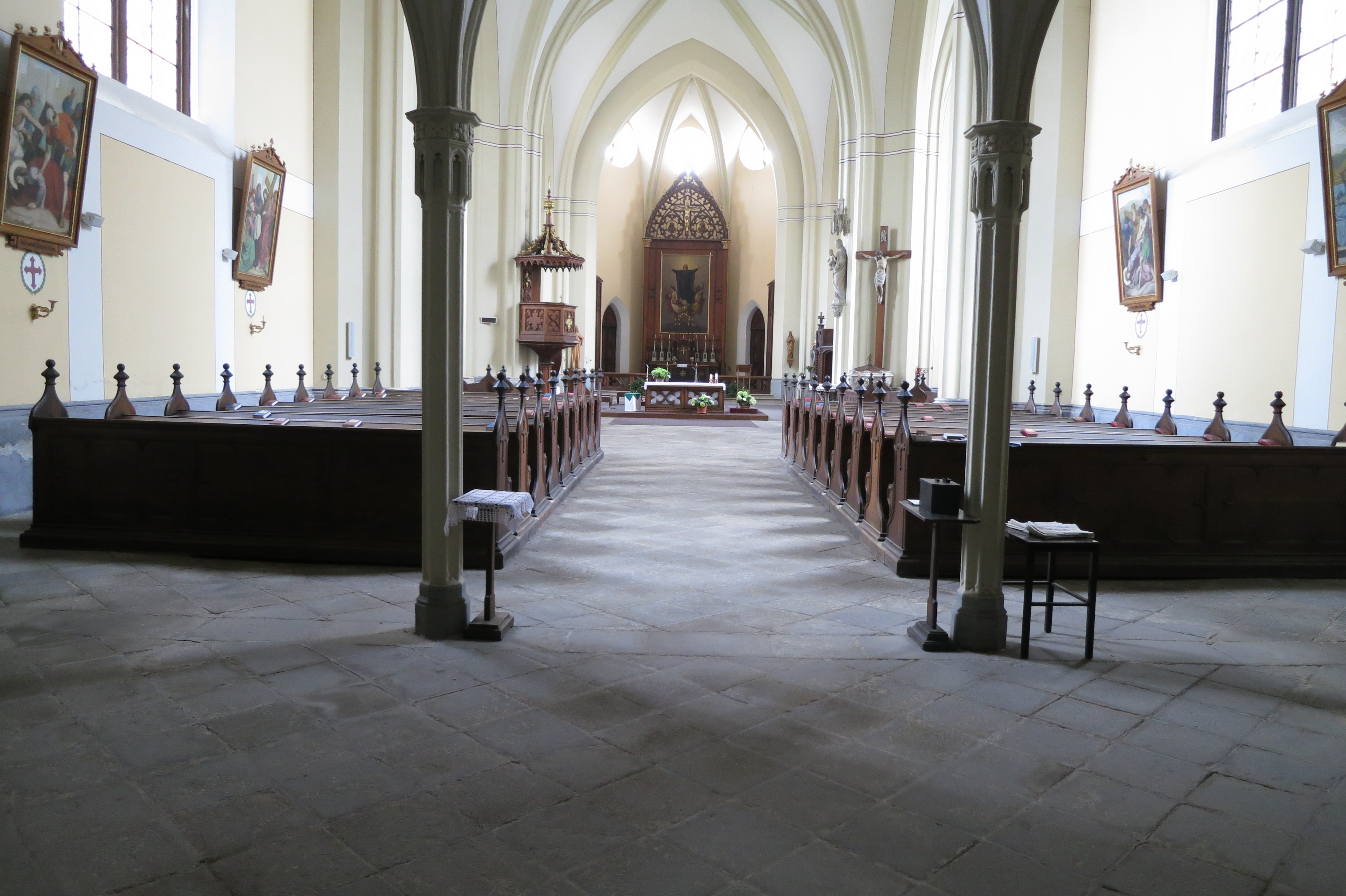 Interior of Church of Saint John of Nepomuk in Hluboká nad Vltavou, České Budějovice District.